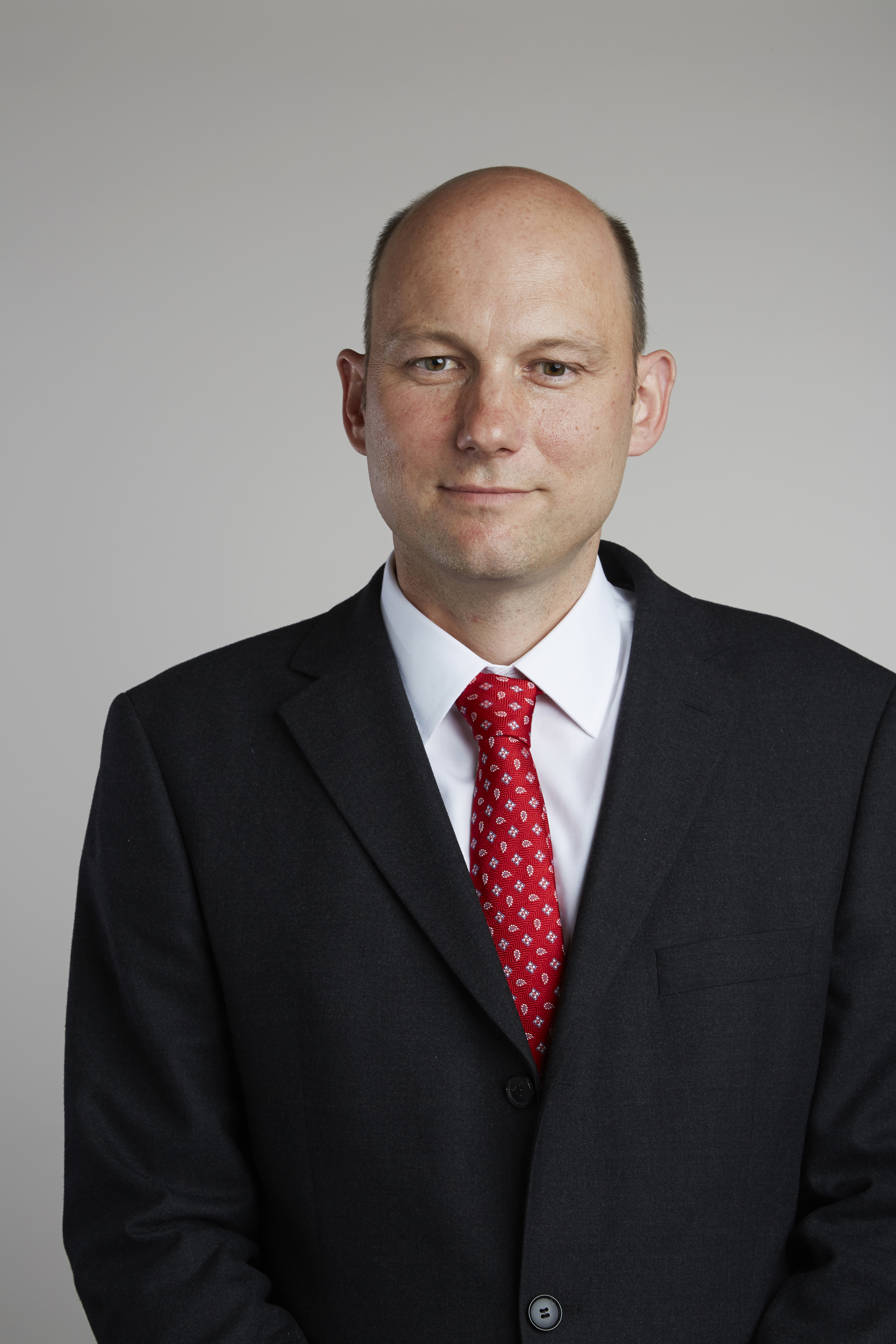 Professor Jens Marklof has made deep and long-lasting contributions at the interface between ergodic theory, mathematical physics and number theory. His main achievements include the proof of the Berry-Tabor conjecture for an important class of integrable billiards, his resolution with Strömbergsson of the long-standing and important problem of determining the nature of the stochastic process that emerges in the Boltzmann-Grad limit of the periodic Lorentz gas, the characterization of the limit distributions of theta sums and Frobenius numbers, and highly influential contributions to the mathematical theory of quantum chaos. Attribution: The Royal Society